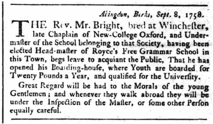 Henry Bright advertisement in the Jackson's Oxford Journal 9 September 1758.